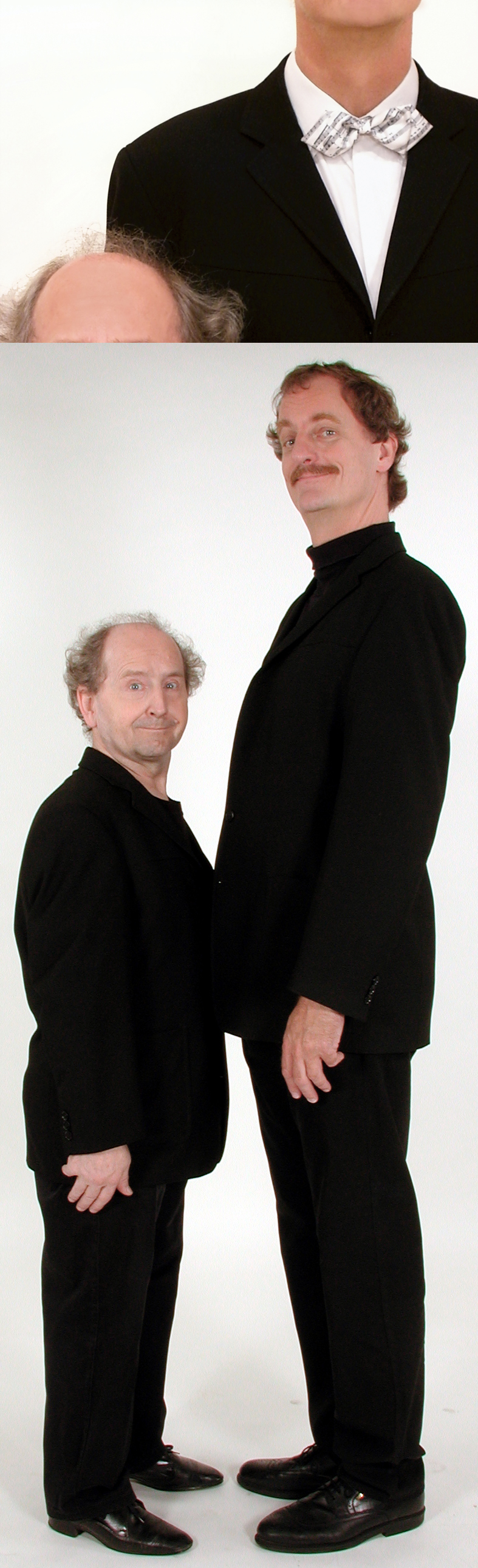 Austrian comedian and entertainer's duo 'Muckenstrunz&Bamschabl': Peter Traxler (left, deceased 2011) and Wolfgang Katzer.